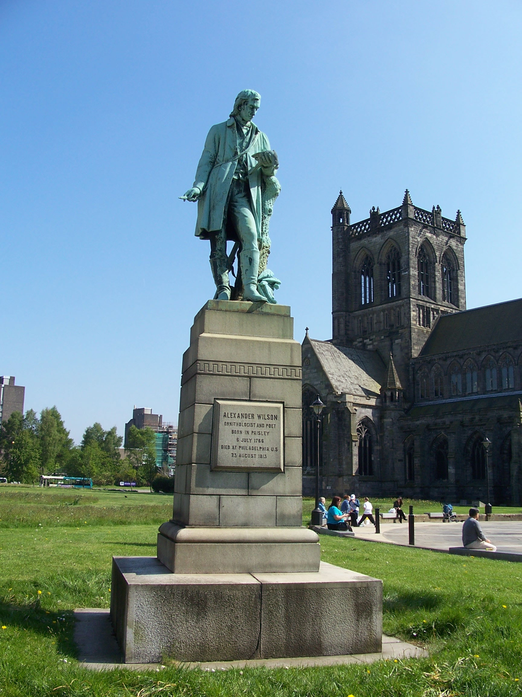 This is the memorial statue of Alexander Wilson at the Paisley Abbey in Paisley, Scotland